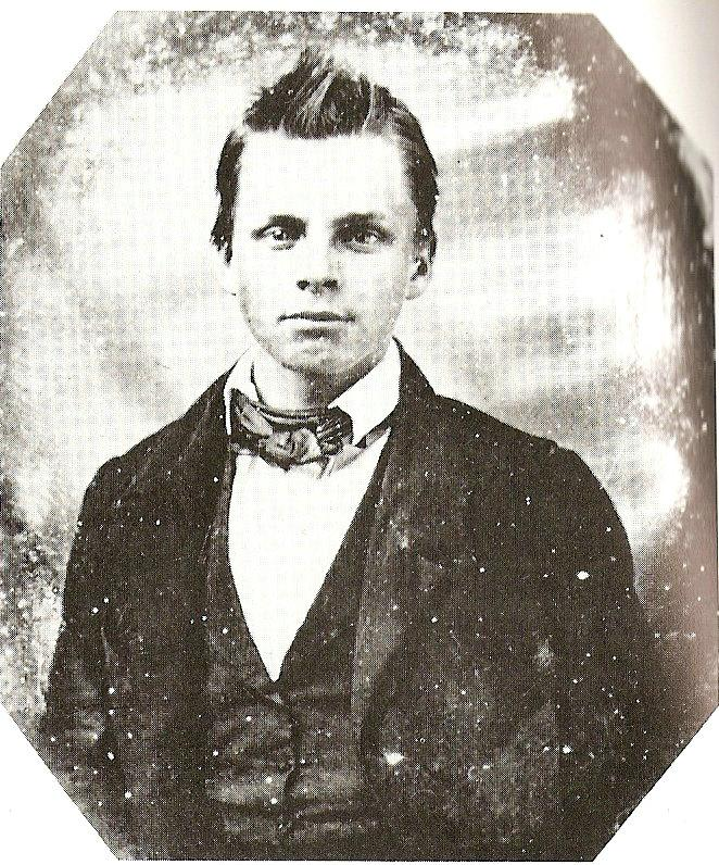 Photograph of US Civil War officer John Pelham at the age of 16, owned by Rabum N. Patrick